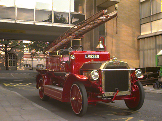 Jezebel, the 1916 Dennis N-Type fire engine owned and maintained by the Royal College of Science Union Motor Club.